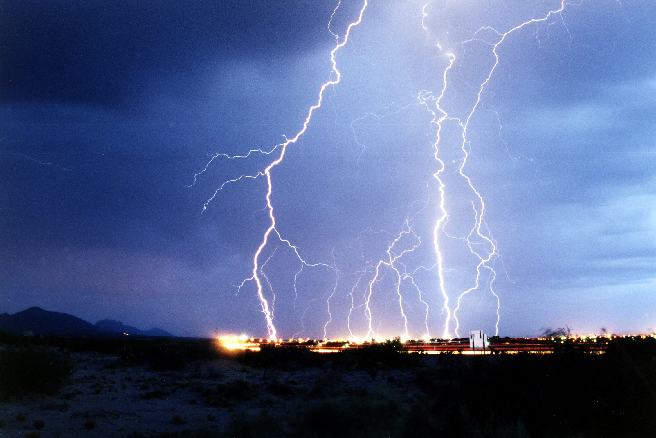 Lightning over Las Cruces, New Mexico